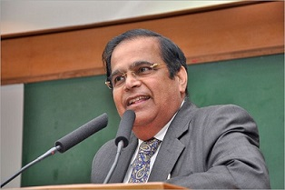 Dr. Dayananda Pai